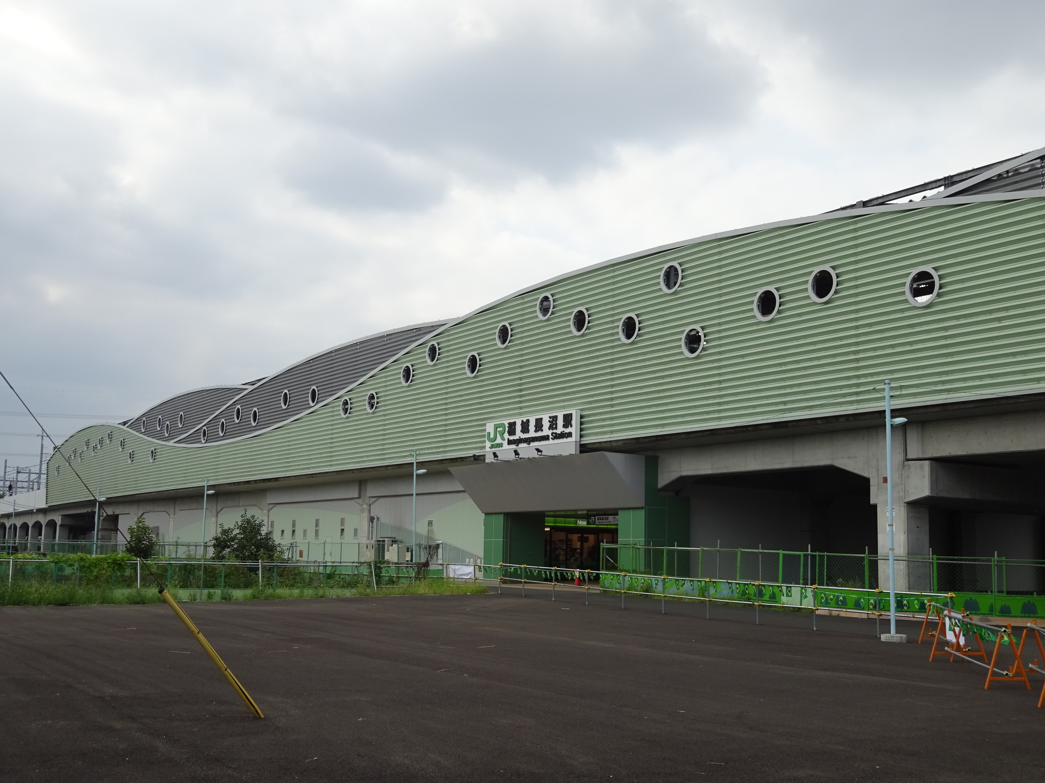 South Entrance of Inagi-Naganuma Staion